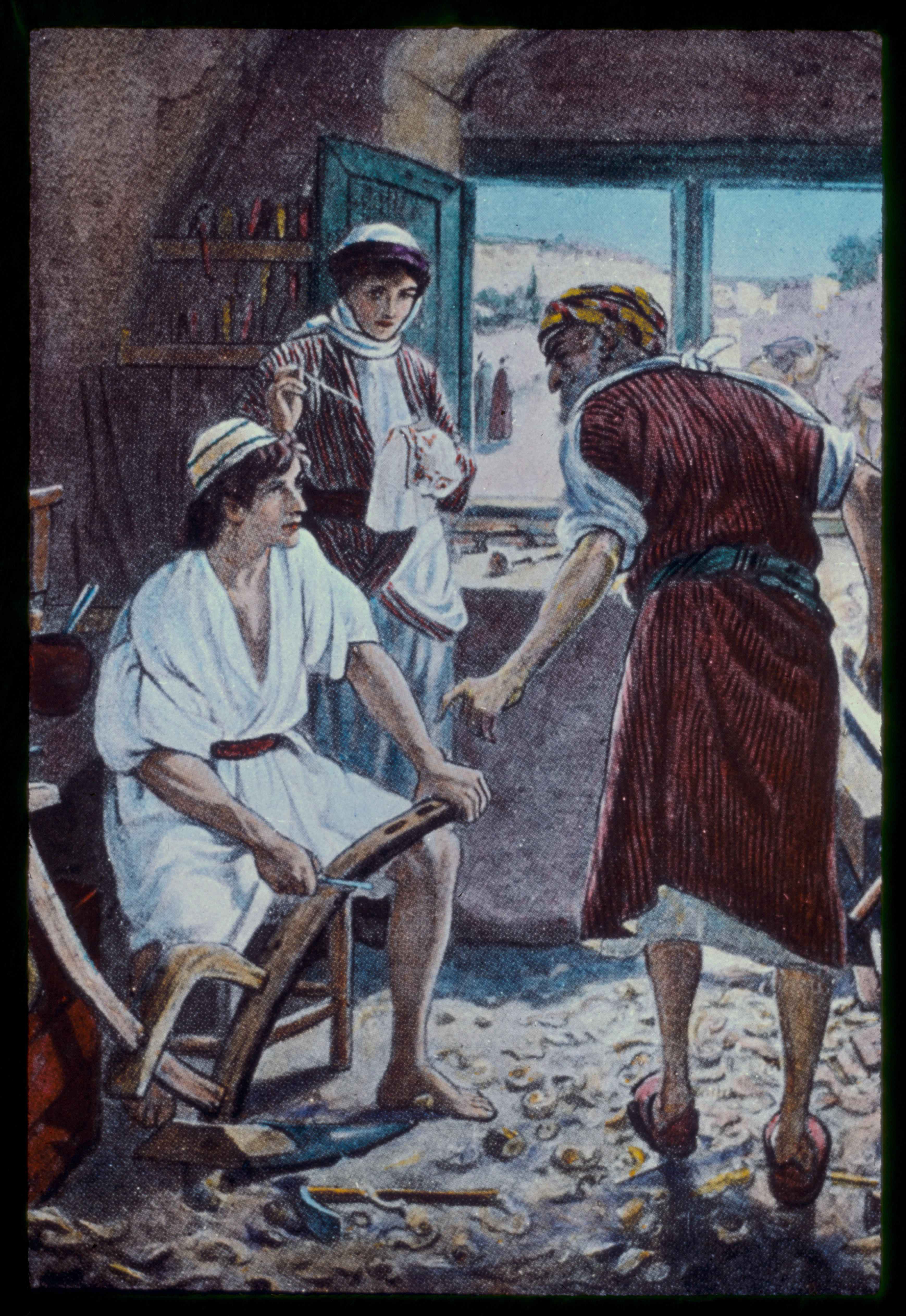 Title: Luke 2:51, 52. Jesus returneth with his parents to Nazareth where he is subject unto them Abstract/medium: G. Eric and Edith Matson Photograph Collection Physical description: 1 slide